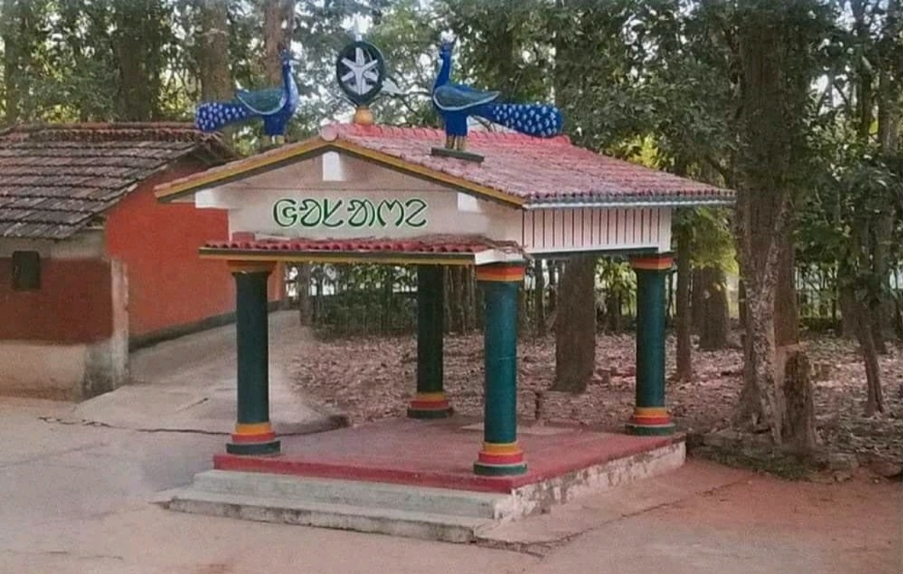 "GOSANNE" is the worshiping place of Santhal people.